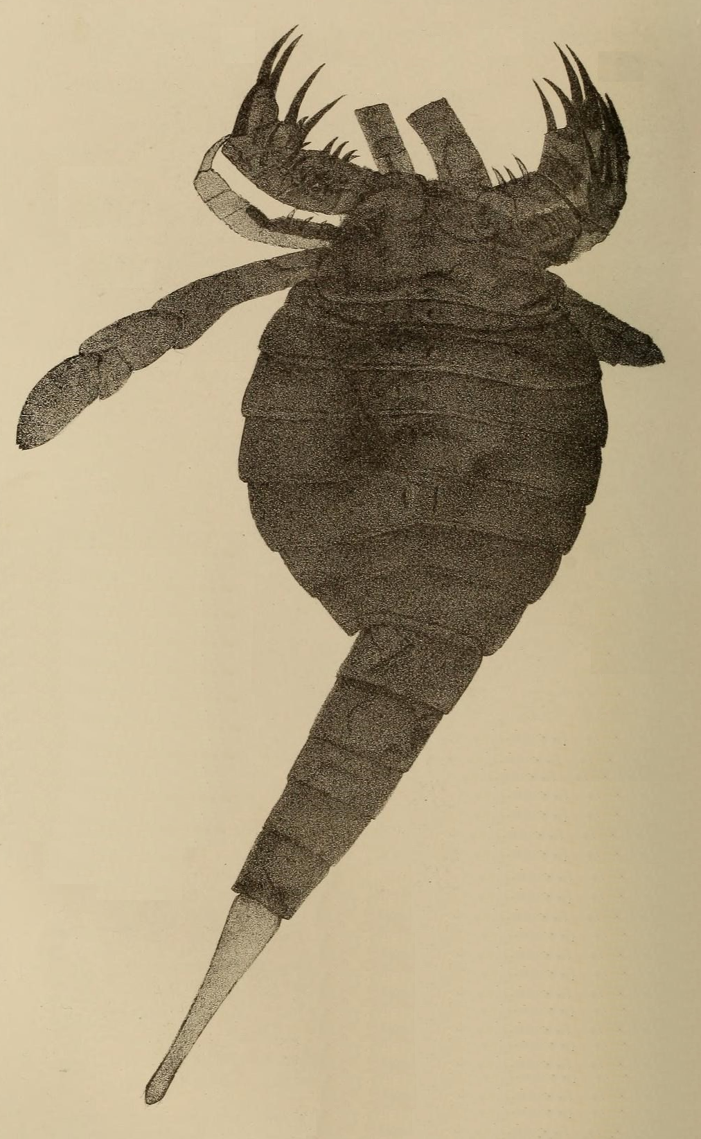 Fossil specimen of eurypterid Carcinosoma scorpioides.